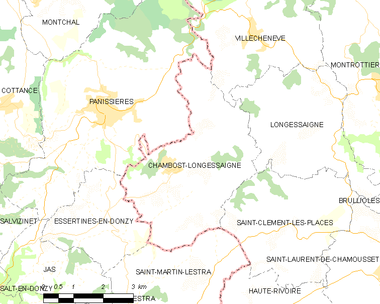 Map of French municipality